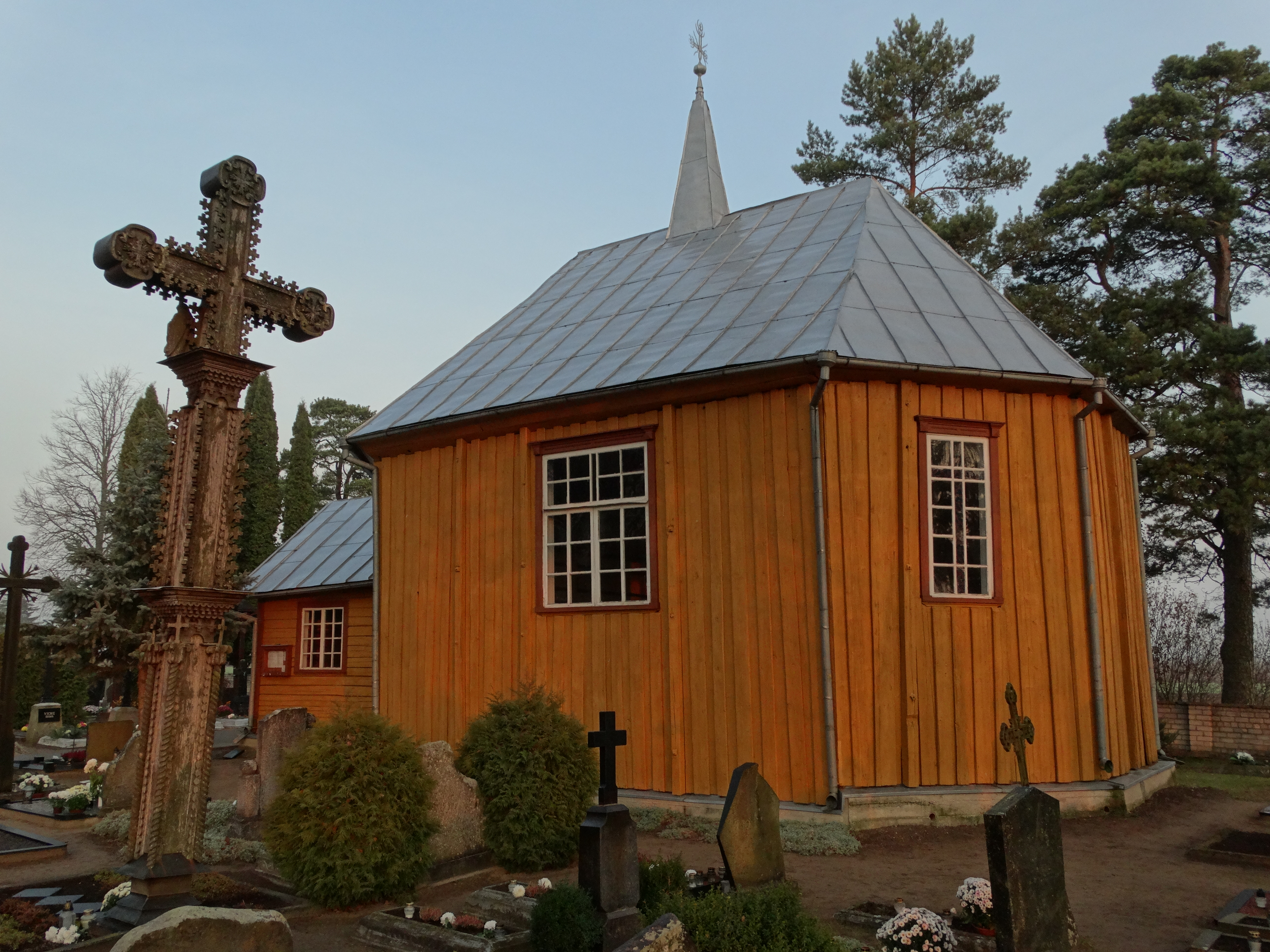 Chapel in Jasiuliškiai, Biržai district, Lithuania